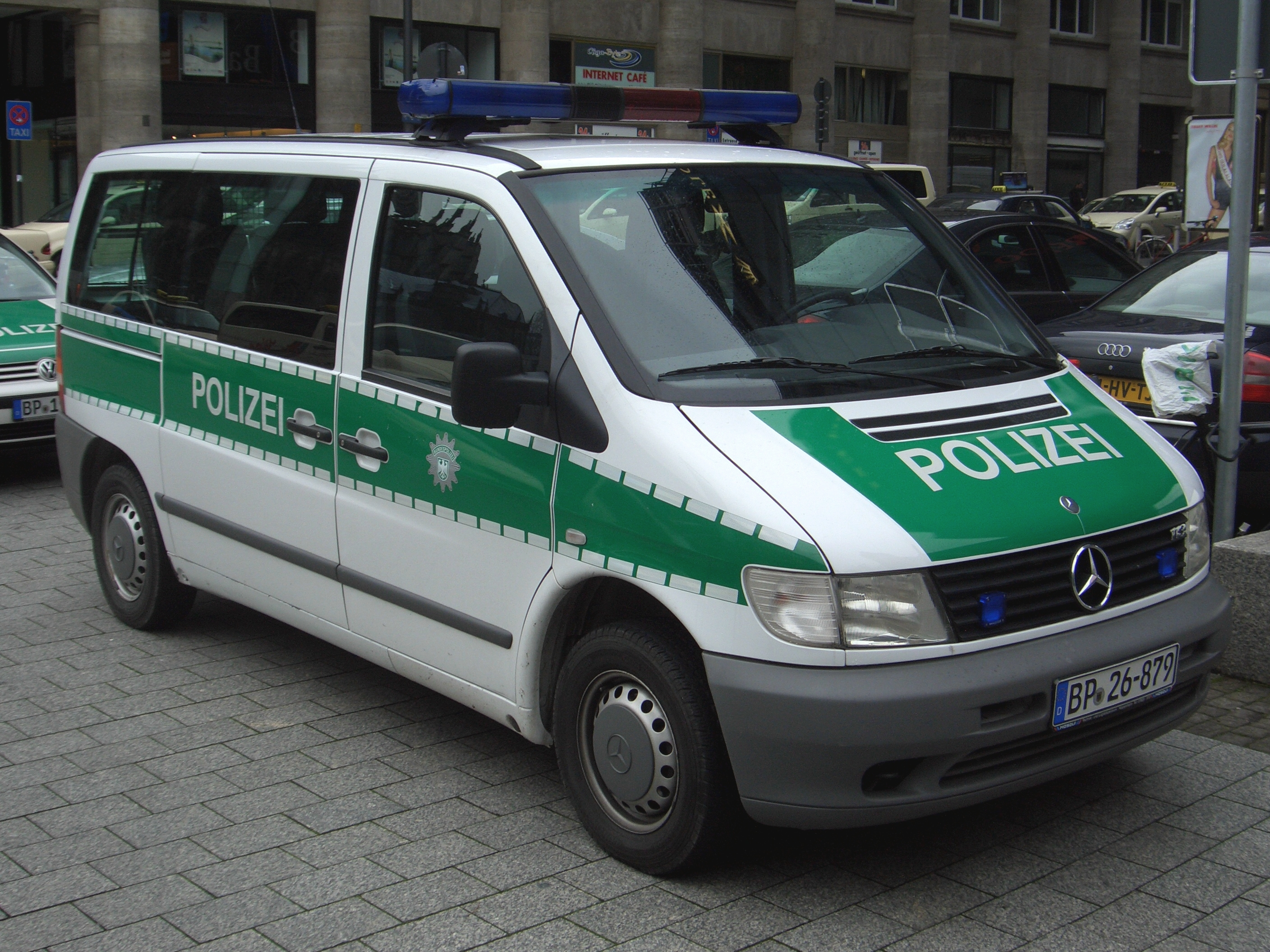 Mercedes-Benz Vito, Gen1 W638 (1996-2003), Bundespolizei Germany. Numberplate: BP = Bundespolizei, 26 = patrol car, 879 = individual car id number. Livery is BUNDESGRENZSCHUTZ (predecessor of the BUNDESPOLIZEI) white / green.